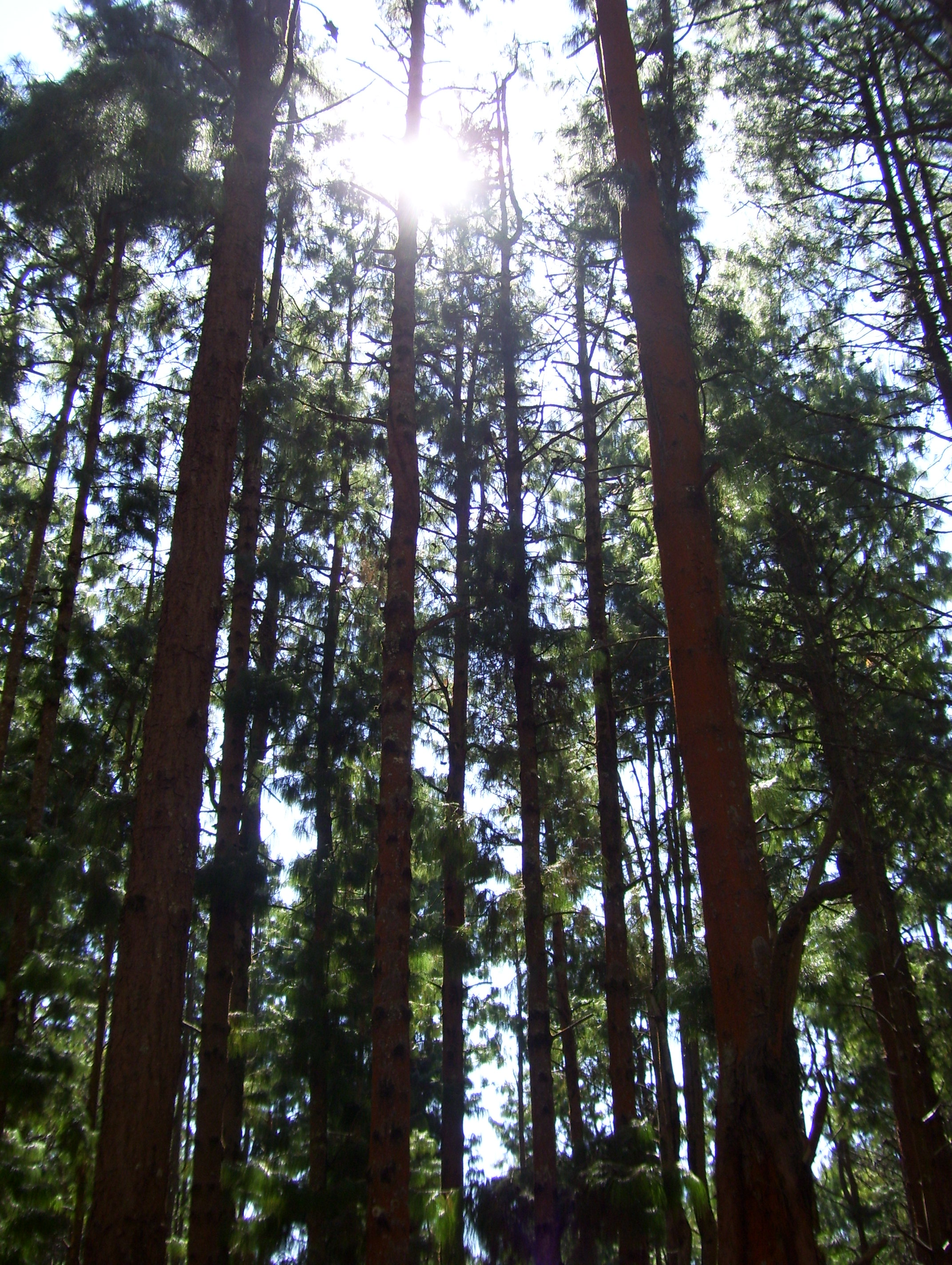 Pine Forest is a tourist spot on the way to the Pykara Falls. It is located on the Ooty - Mysore highway.